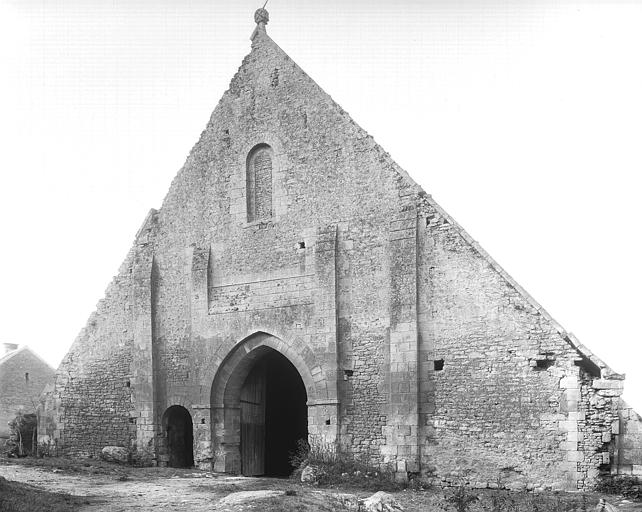 Tithe barn of Perrières